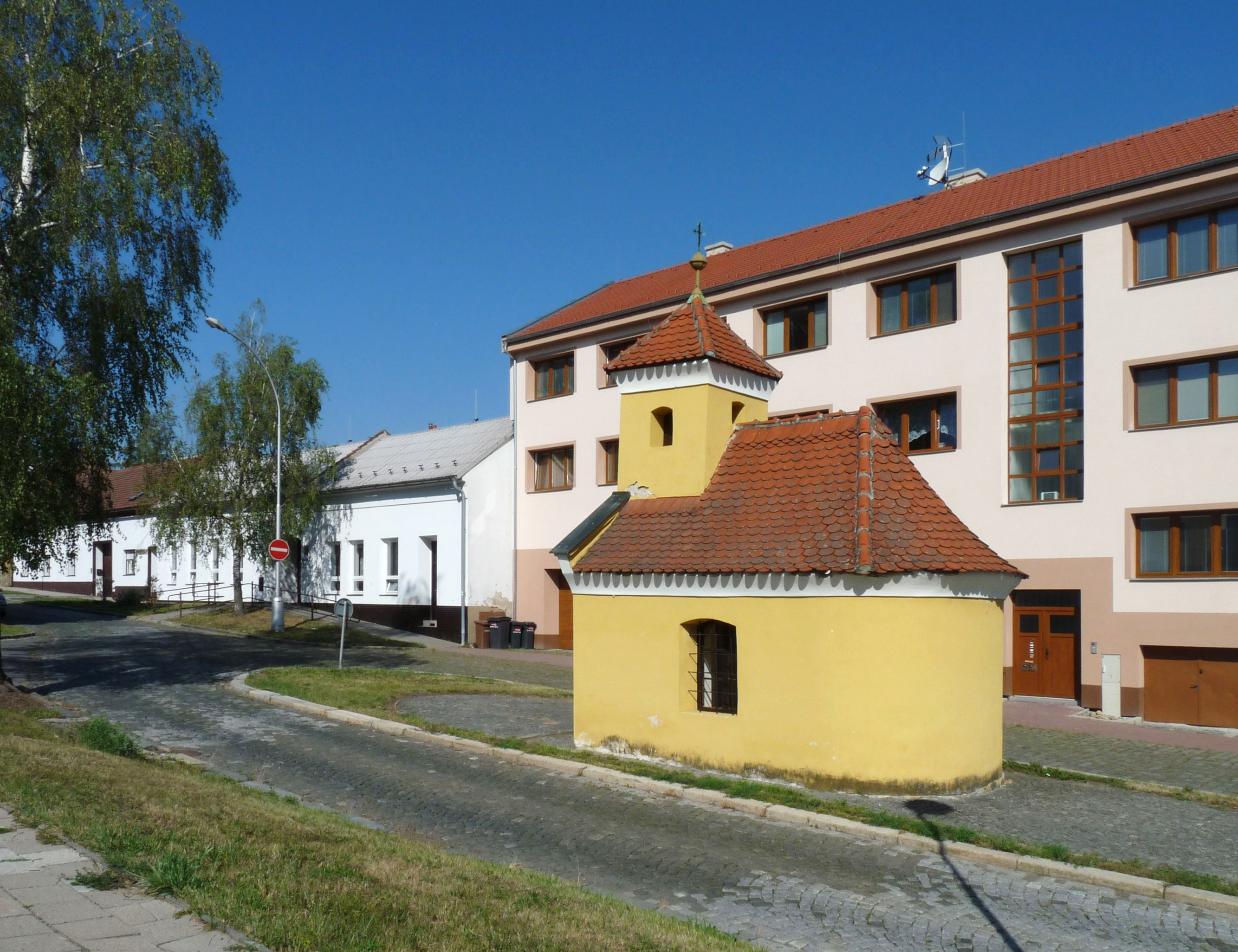 St. Florian Chapel in the town of Kroměříž, Zlín Region, Czech Republic.